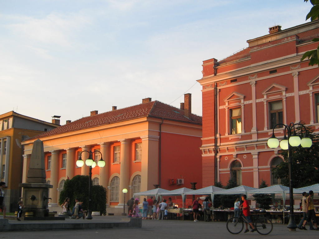 Source is Serbian Wikipedia: Thus, same copyright tag as there.